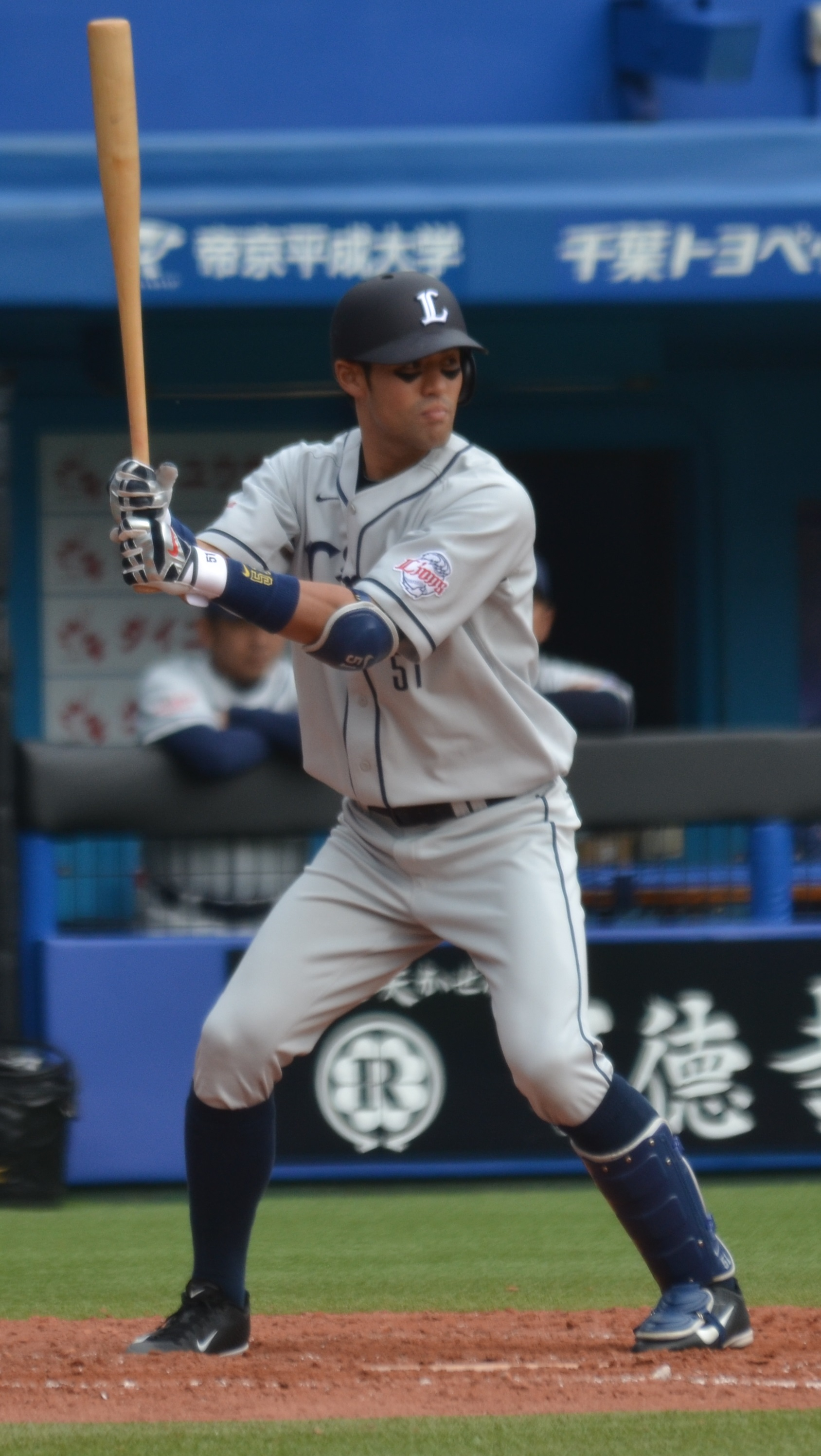 Fumikazu Kimura, outfielder of the Saitama Seibu Lions, at Chiba Marine Stadium.